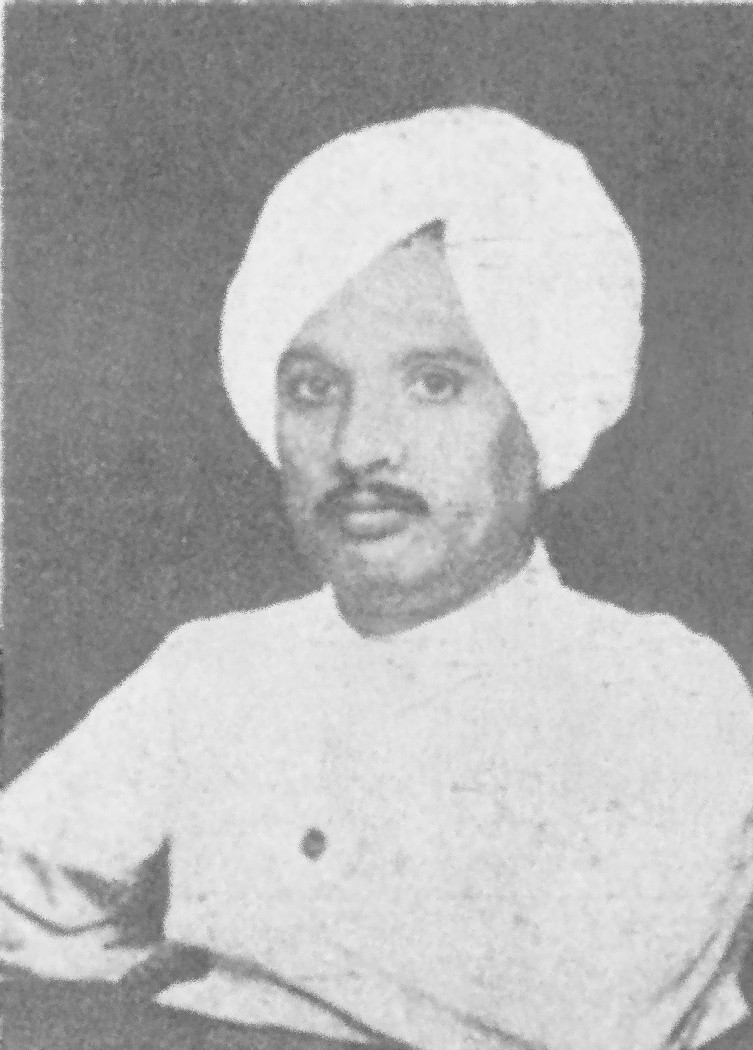 Suravaram Pratapareddy (1896-1953), Telugu social historian